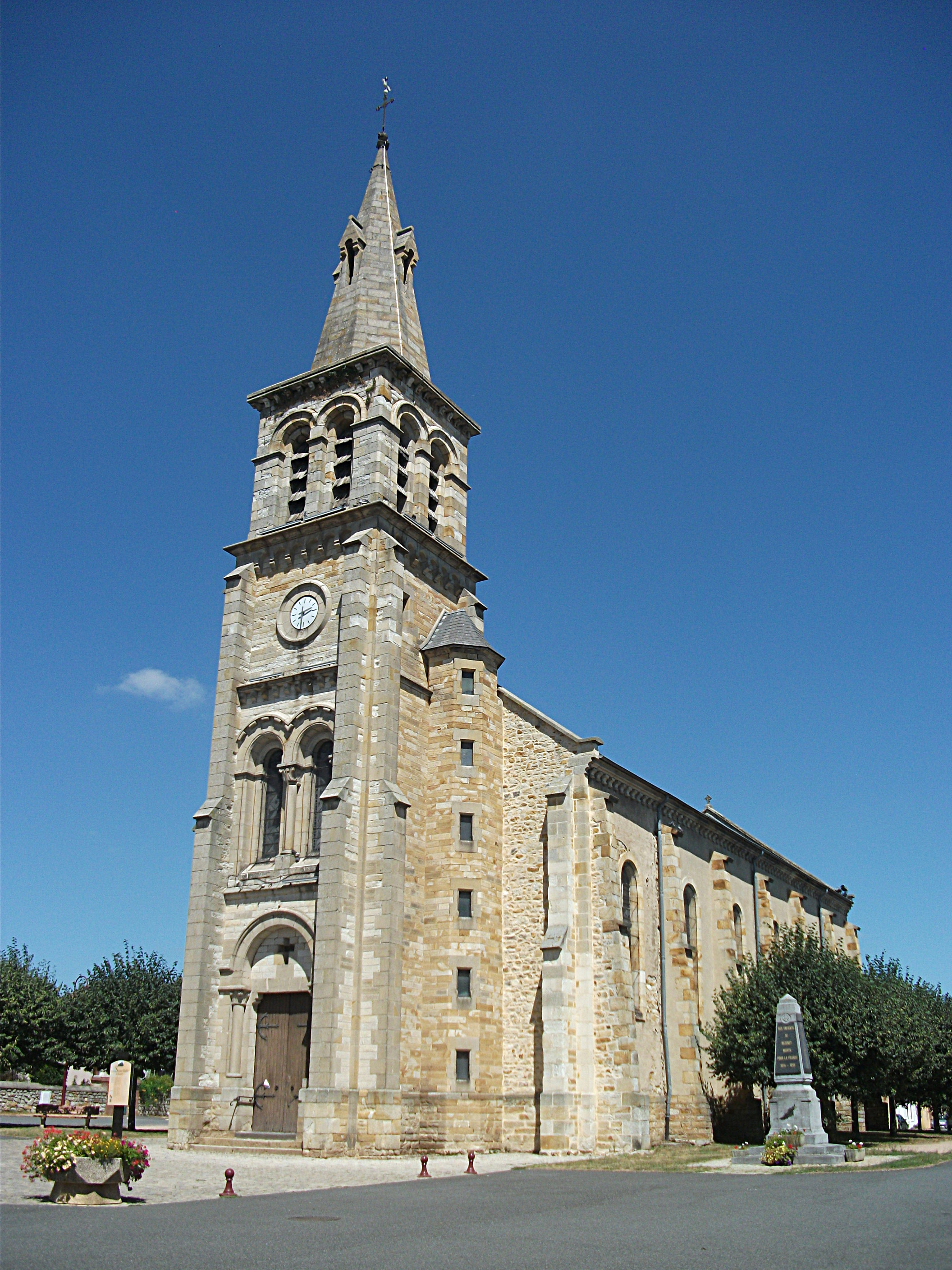 Church of Bézenet, Allier, Auvergne-Rhône-Alpes, France. [16734]